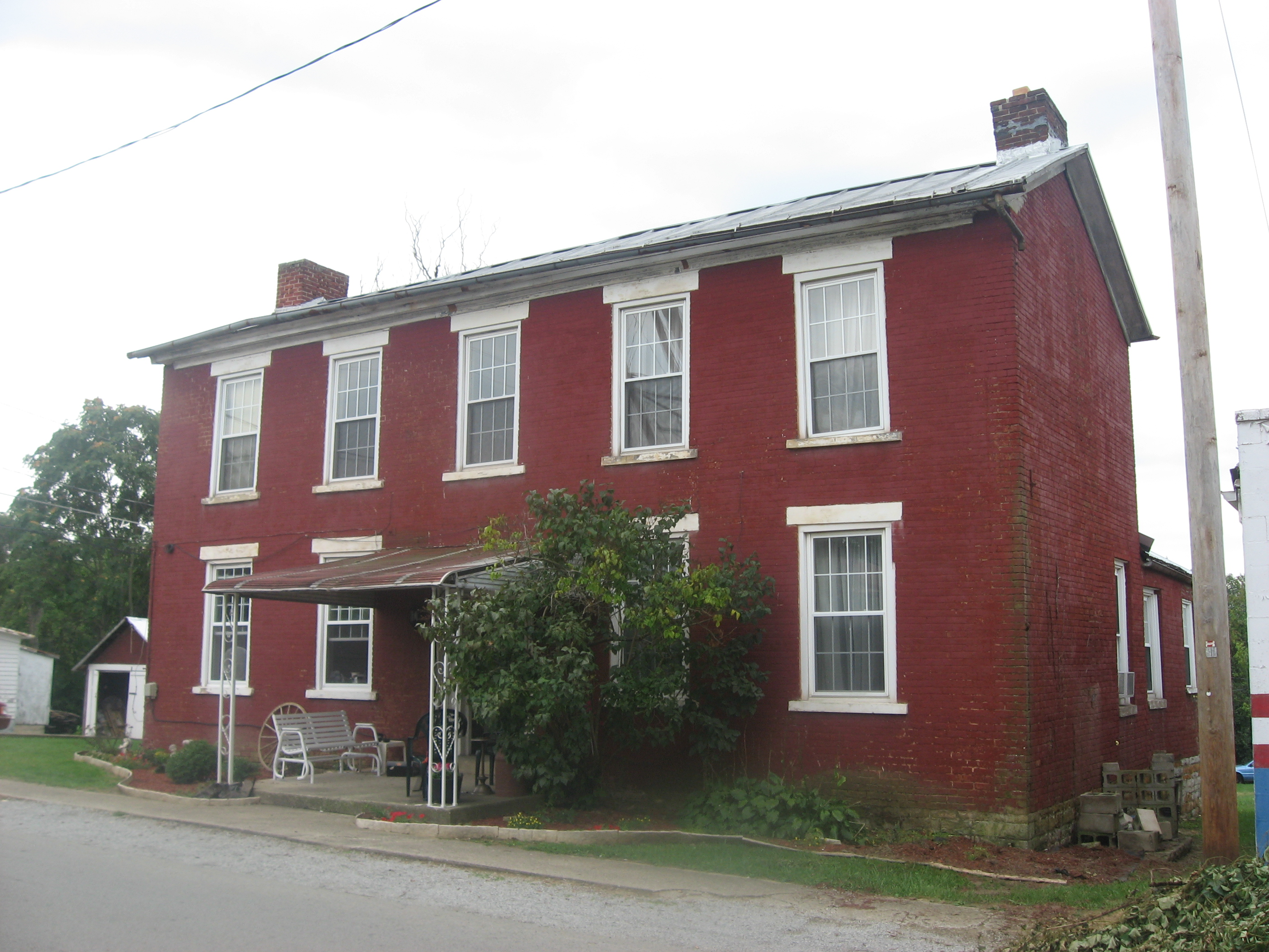 Front and western side of the Dr. A.C. Lewis House, located at 103 E. South Street in Winchester, Ohio, United States. Built in 1845, it is listed on the National Register of Historic Places.